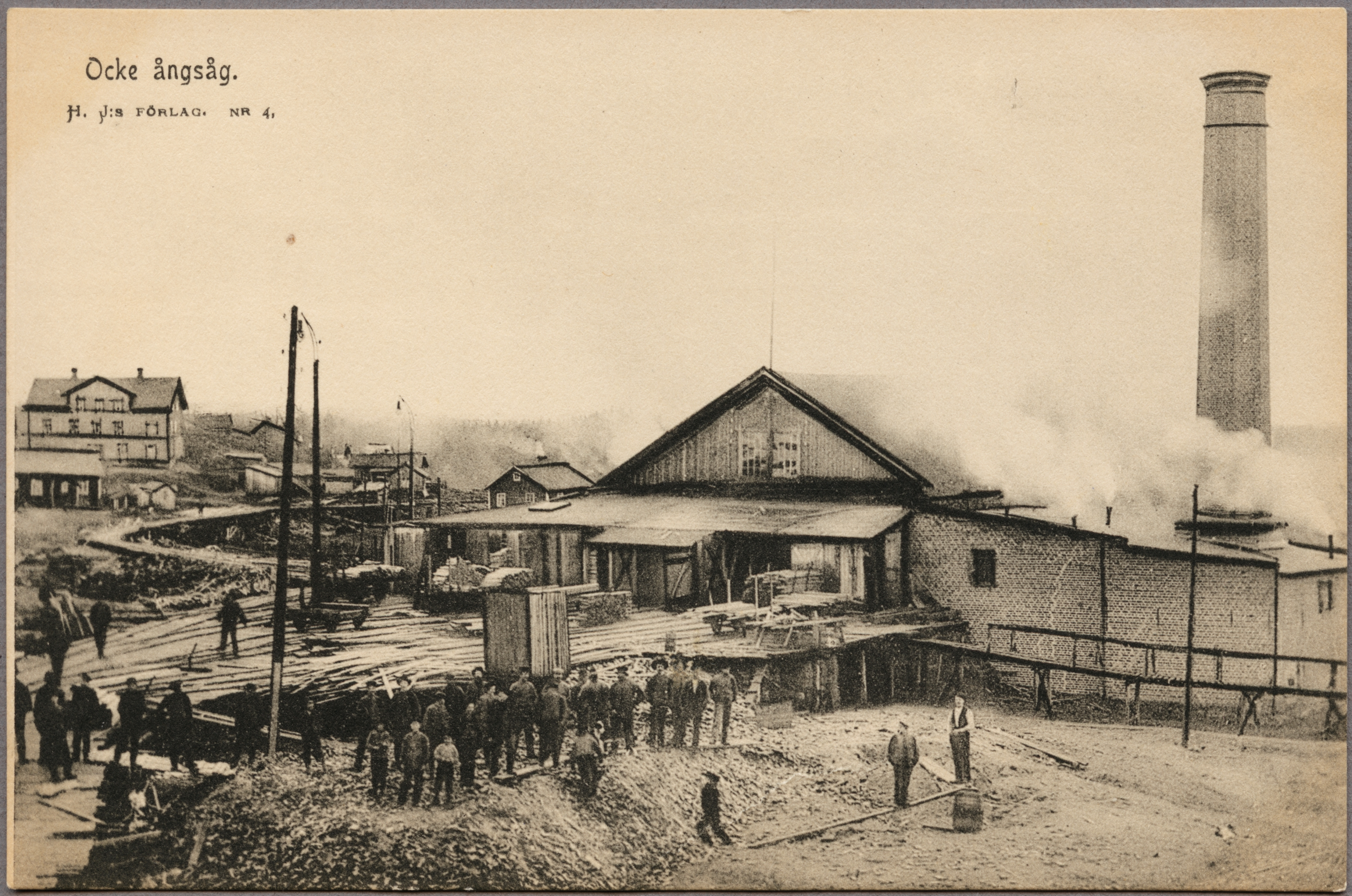 Steam sawmill Ocke, 1905